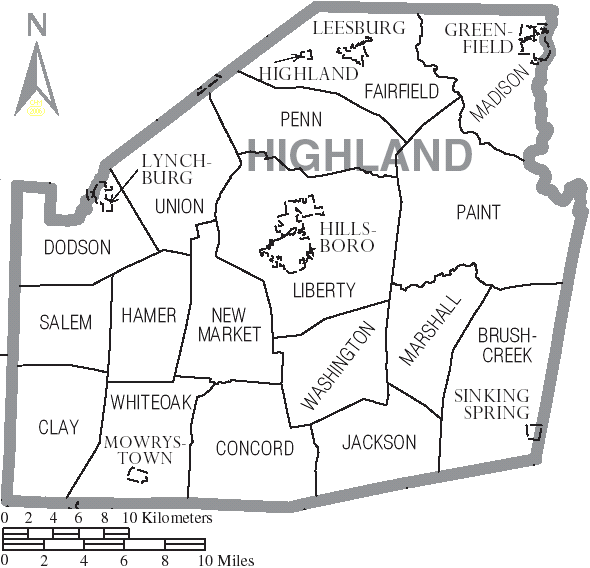 Map of Highland County, Ohio, United States with township and municipal boundaries